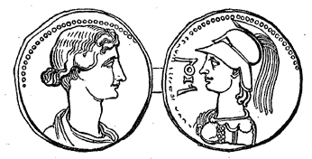 Julia, daughter of Augustus